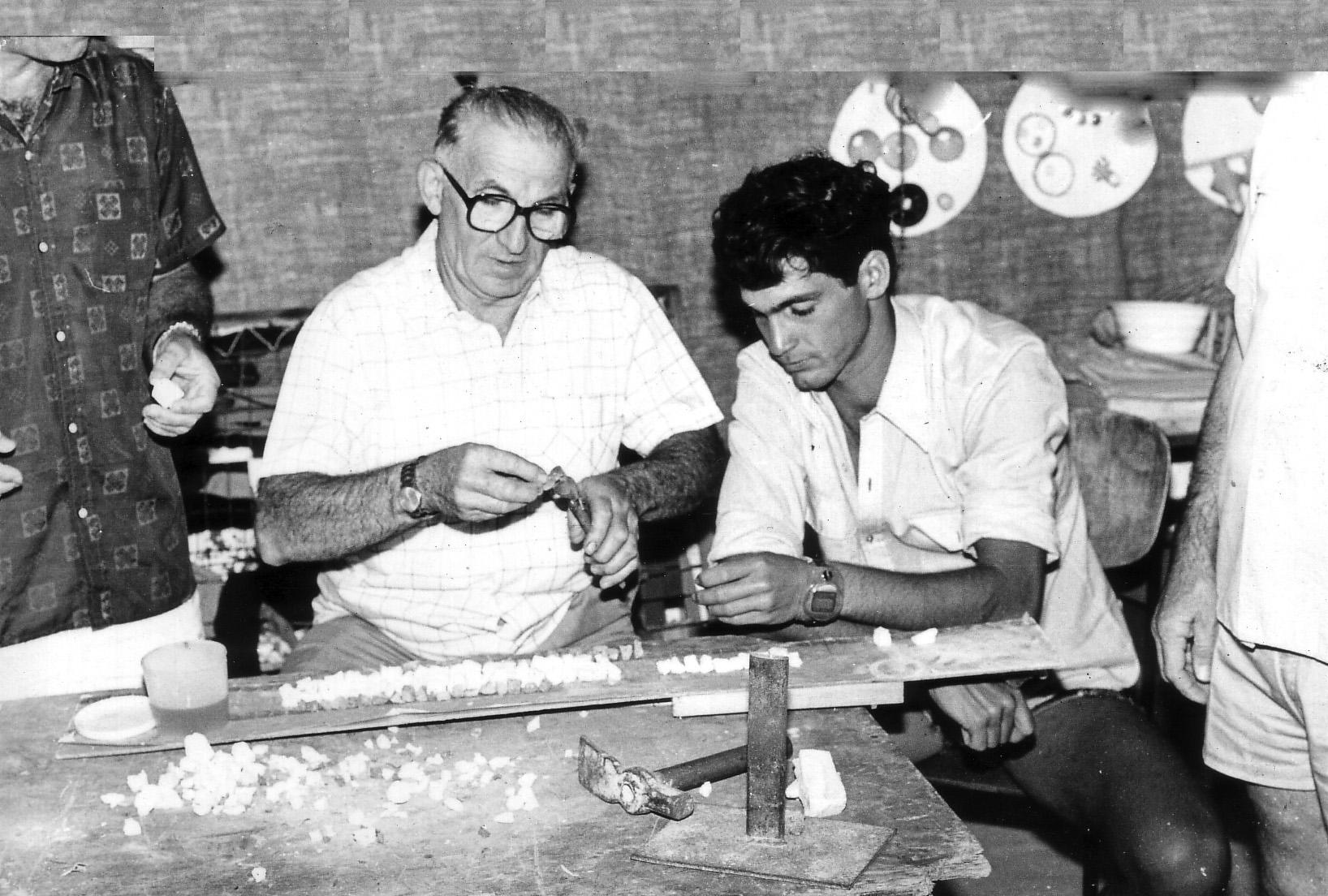 Creating Rehov Mosaic replica, in Kibbutz Ein HaNatziv. Preparing the Mosaic replica - Step A: Sorting out the stones, Winter 1974